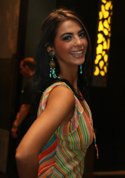 Miss Germany - Janice Behrendt in Miss World 2007, Sanya, China